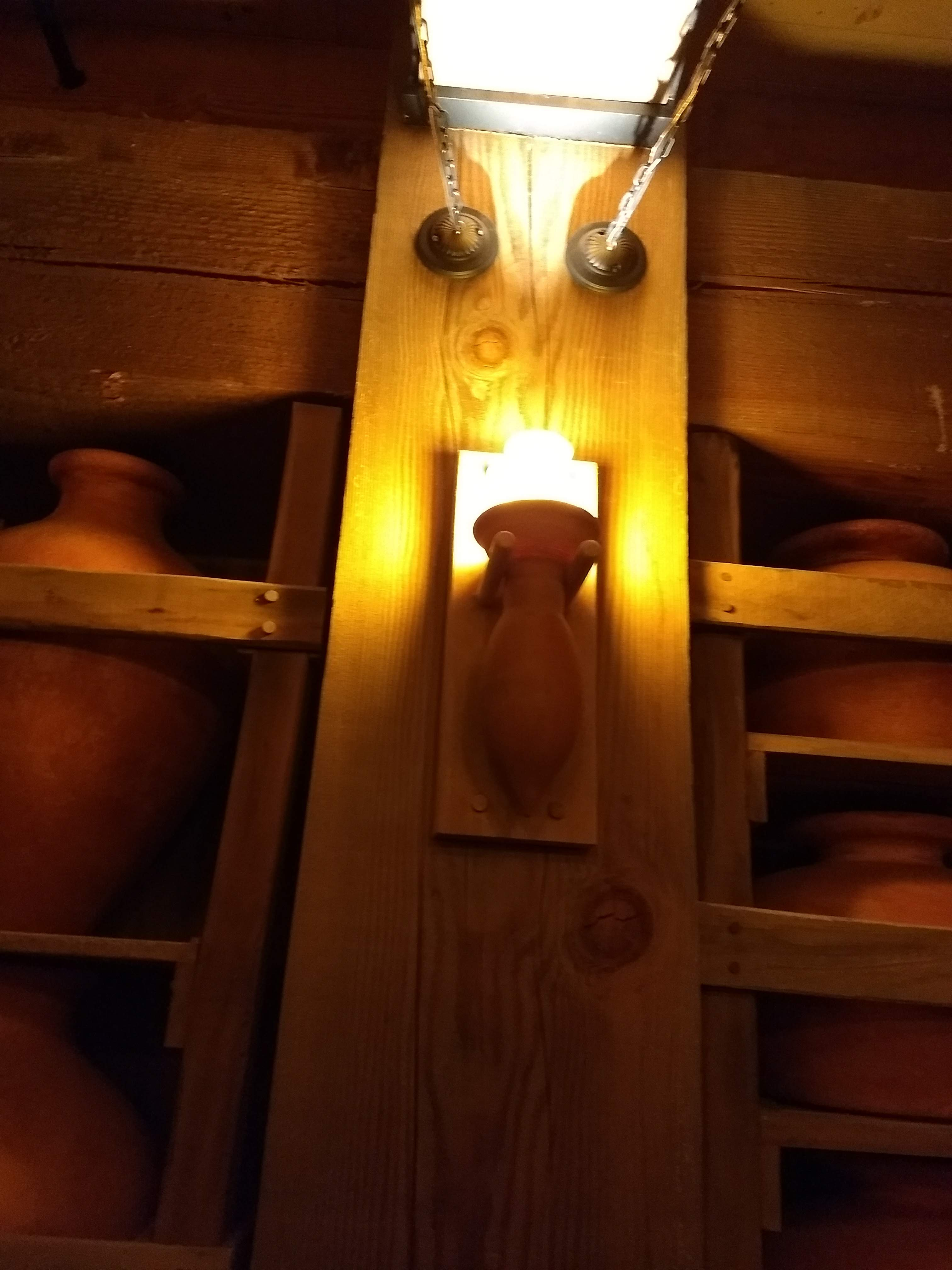 Lighting inside the Ark Encounter, designed to look like an ancient lantern